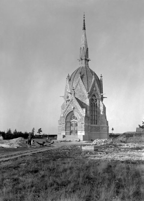 Jusélius mausoleum, Pori, Finland, 1903. Image by petrologist Jakob Sederholm (1963-1934).